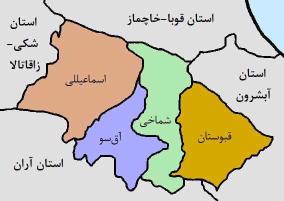 Mountainous Shirvan Region